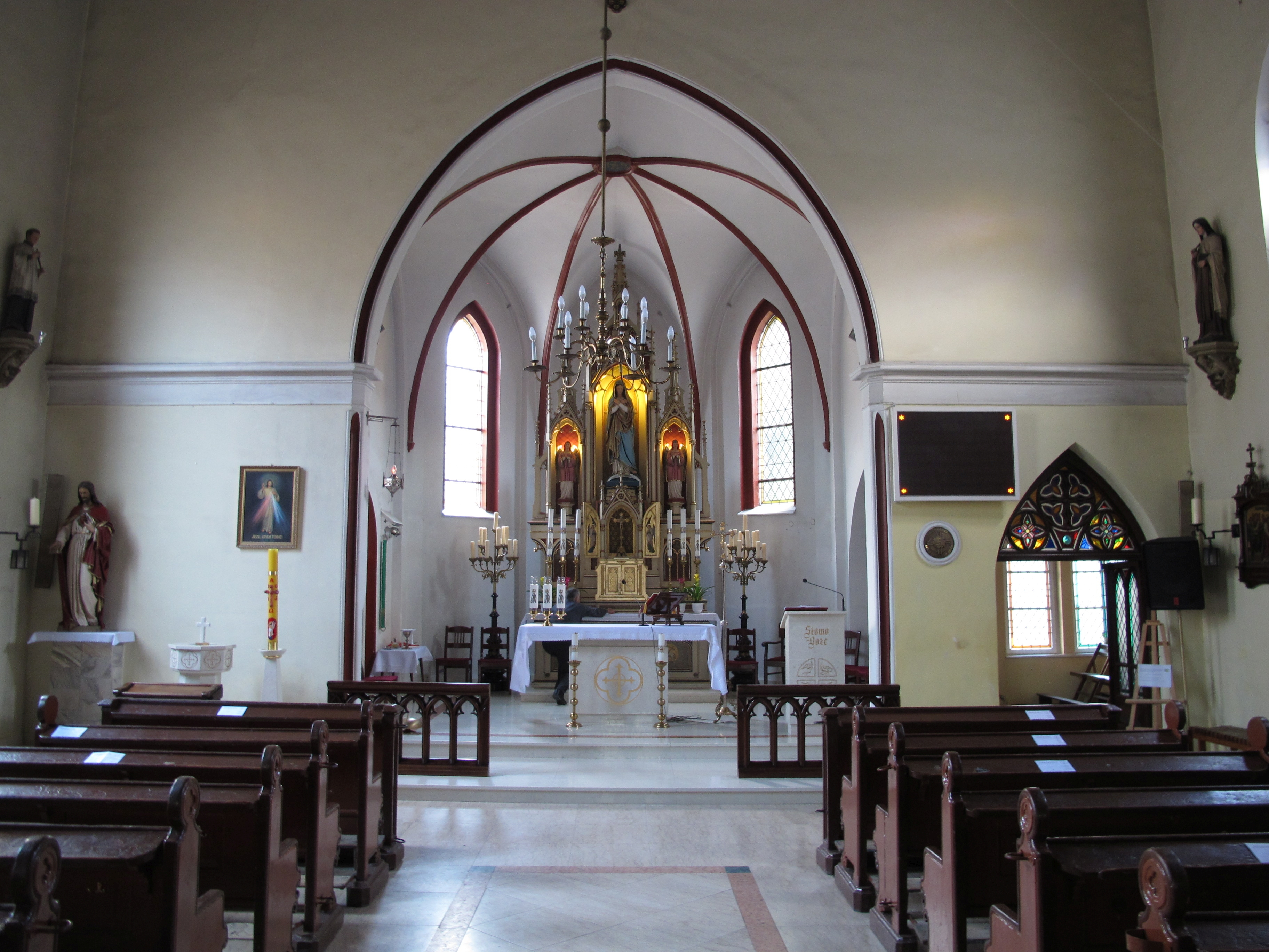 Gdańsk - Immaculate Conception church